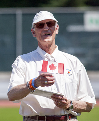 Photo of Doug Clement